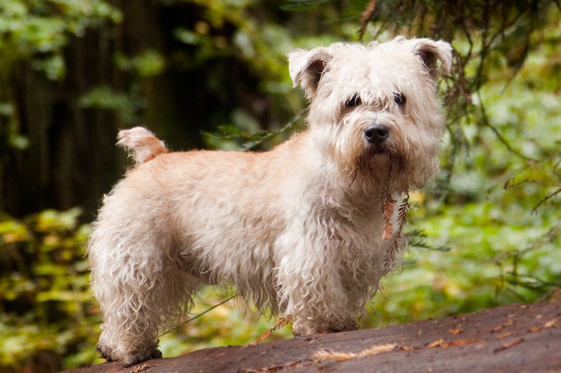 Adult wheaten Glen of Imaal terrier. A photo I took of my wife's dog.